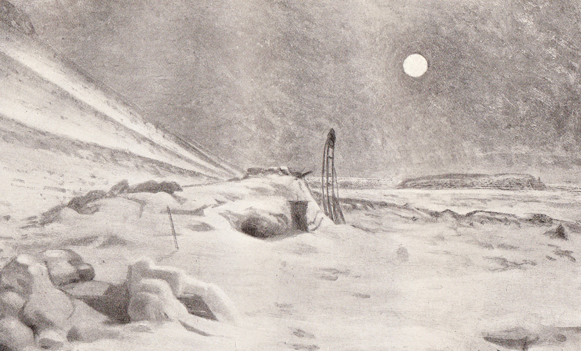 Artist's depiction (from a photograph) of the snow-covered hut in which Nansen and Johansen spent the winter of 1895-96